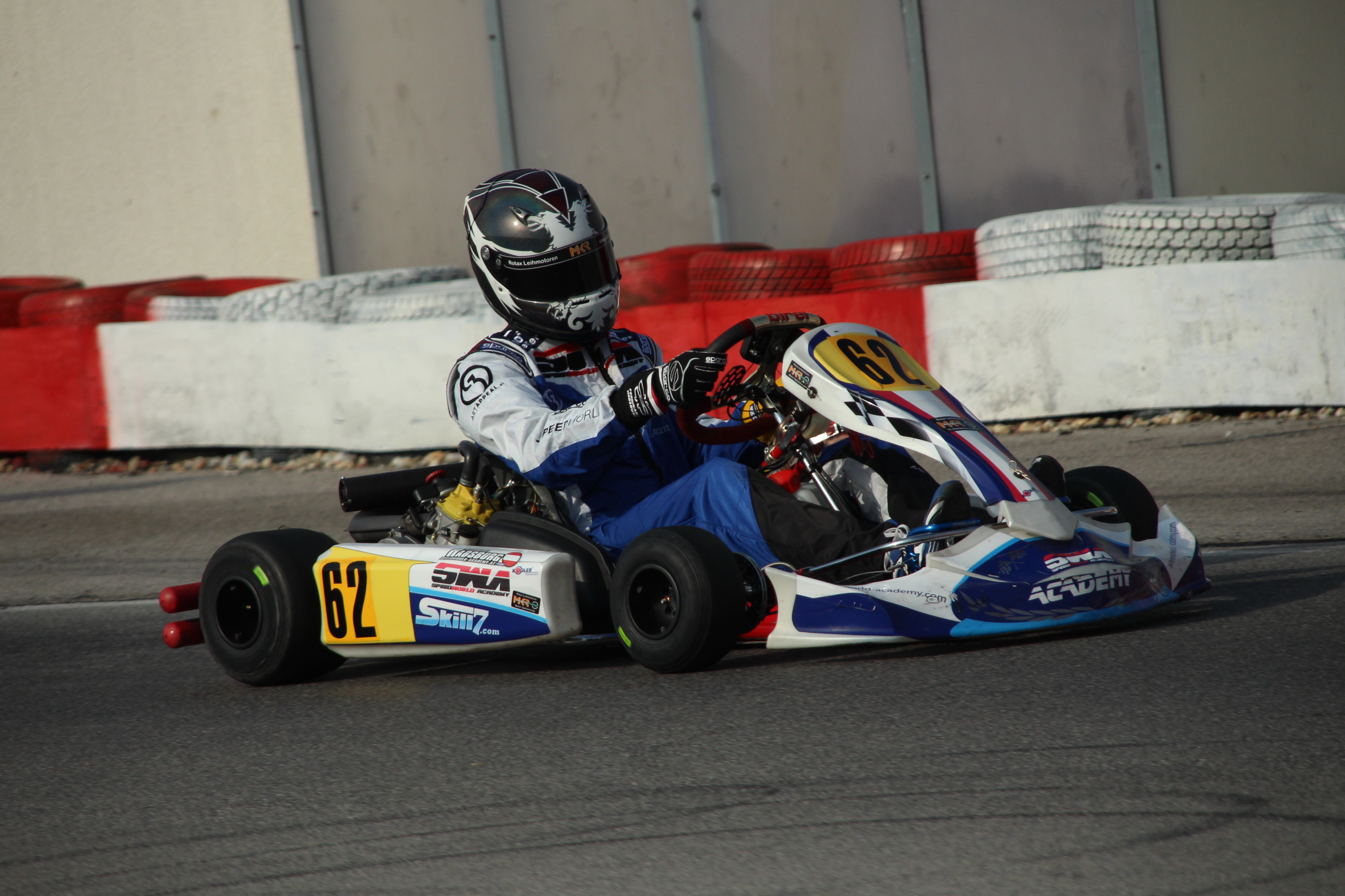 Ferdinand Habsburg, karting